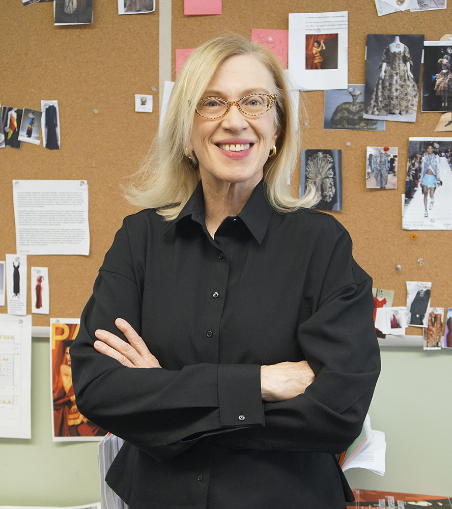 Dr. Valerie Steele, director and chief curator of The Museum at FIT. Photo by Smiljana Peros, FIT, 2019